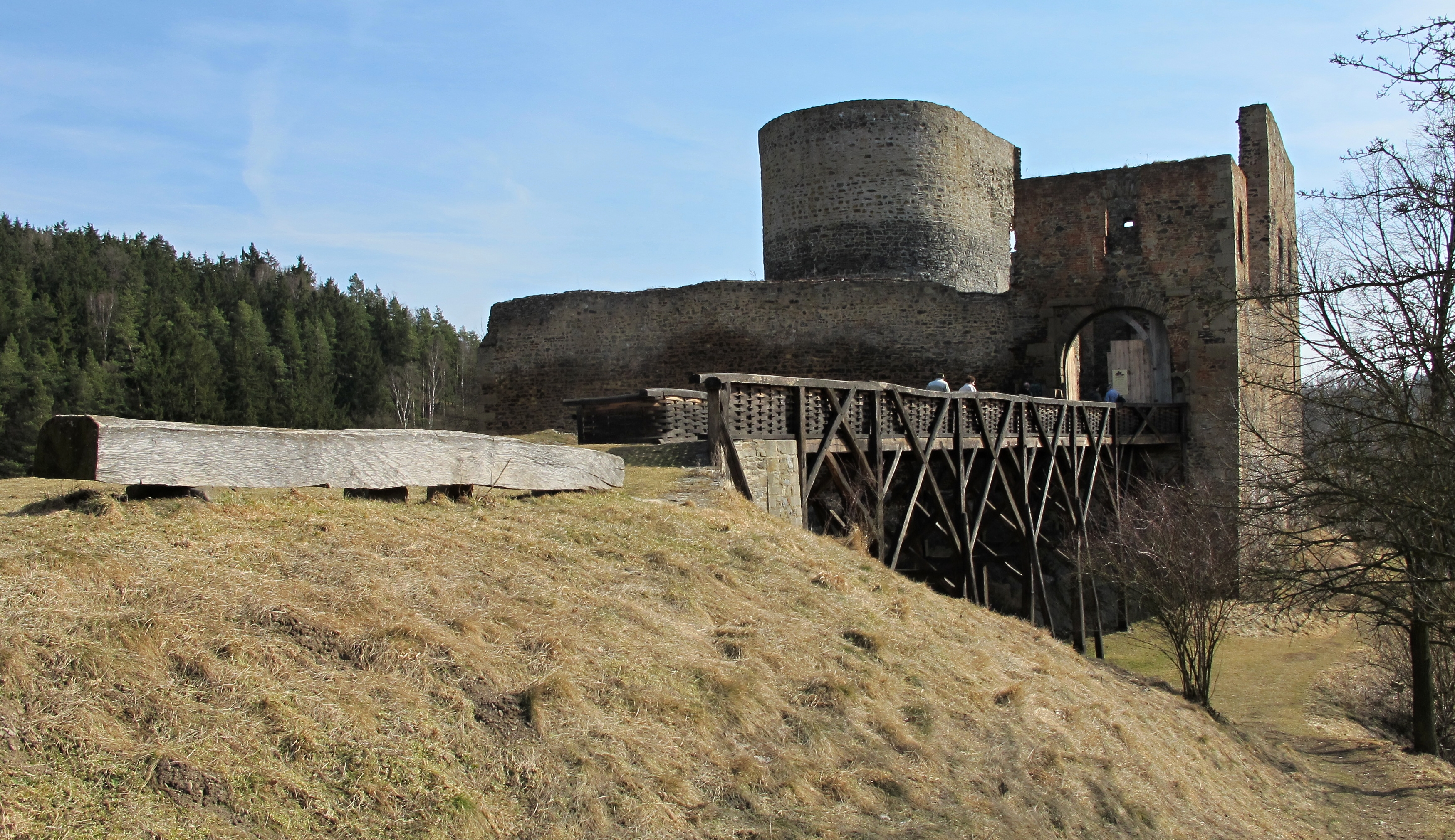 ruins of Gothic castle Krakovec, Rakovník District